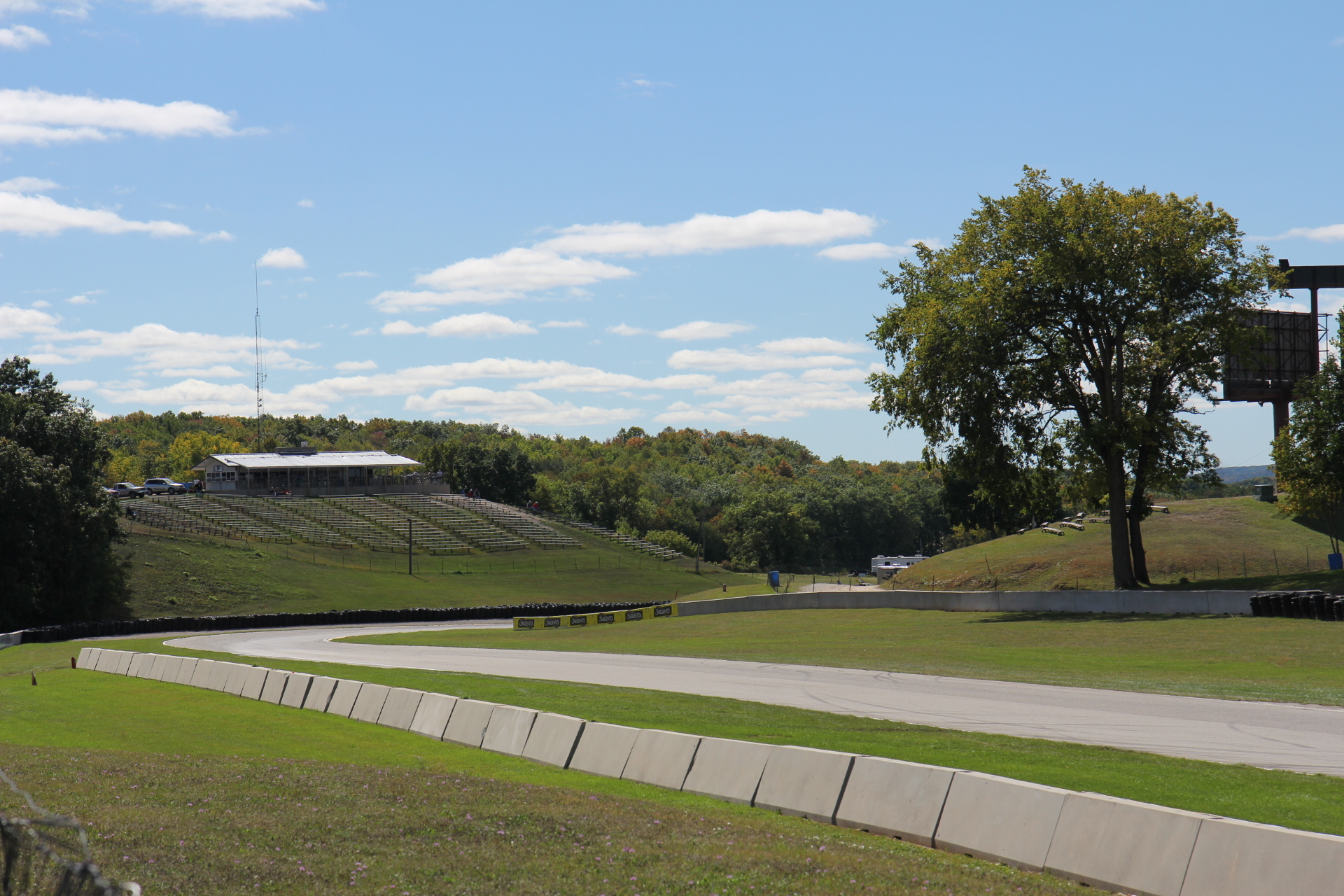 Turn 7 at Road America. Also published on flickr at